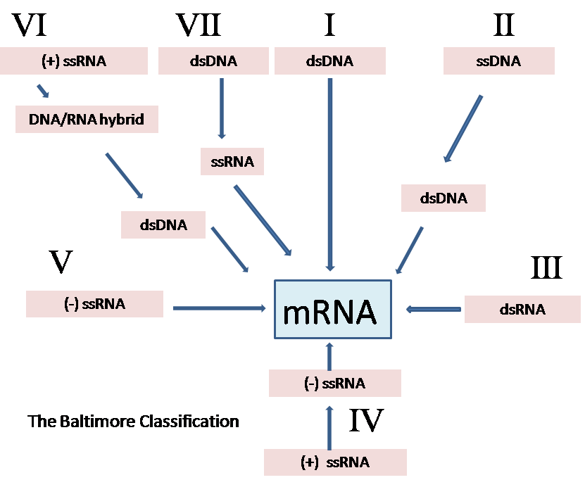 The Baltimore classication of viruses. (-) and (+) indicates negative or positive sense nucleaic acid. ss indicates single-stranded nucleic acid and ds double-stranded, helical, nucleic acid.